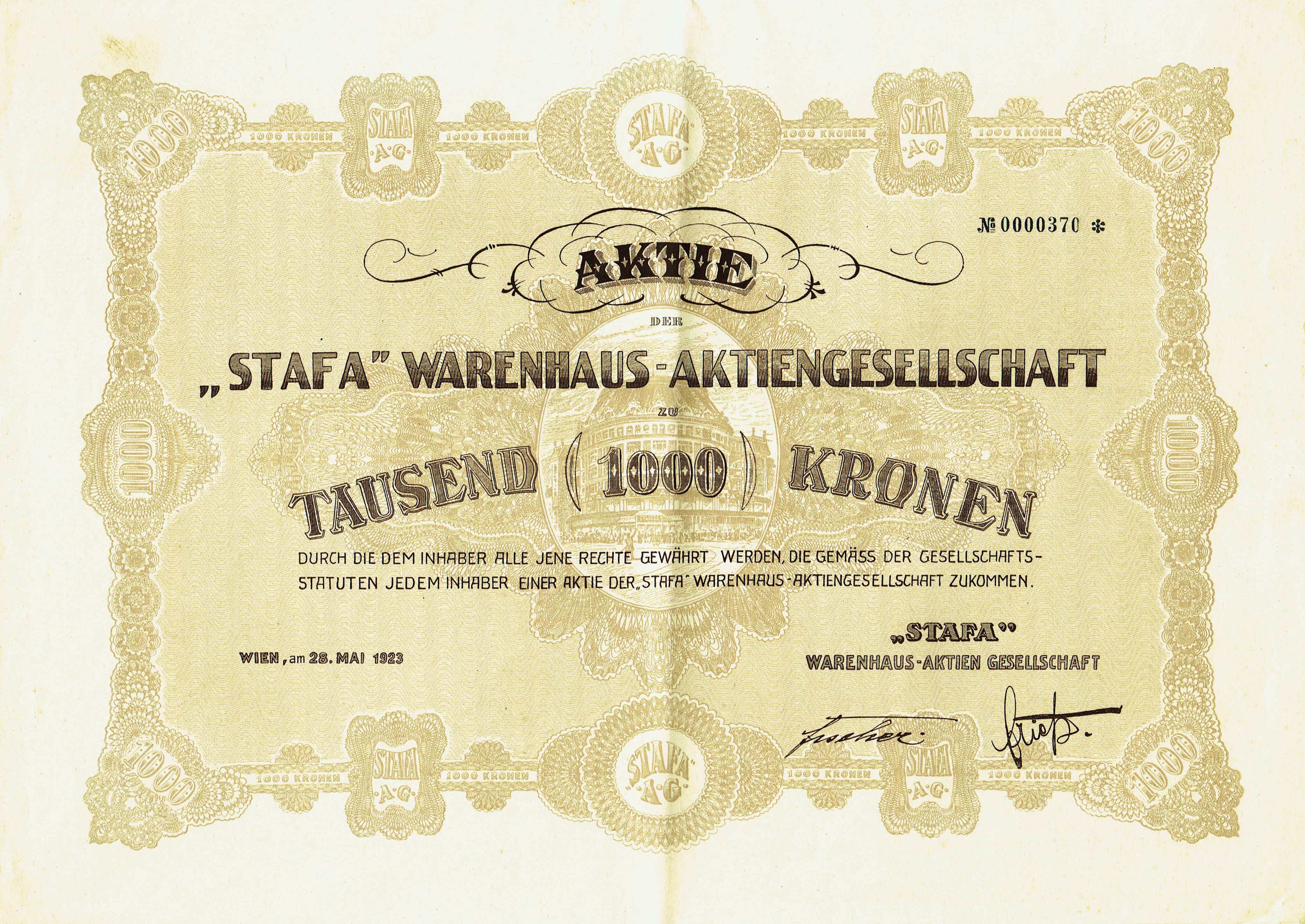 Share of the Stafa Warenhaus AG, issued 28. May 1923